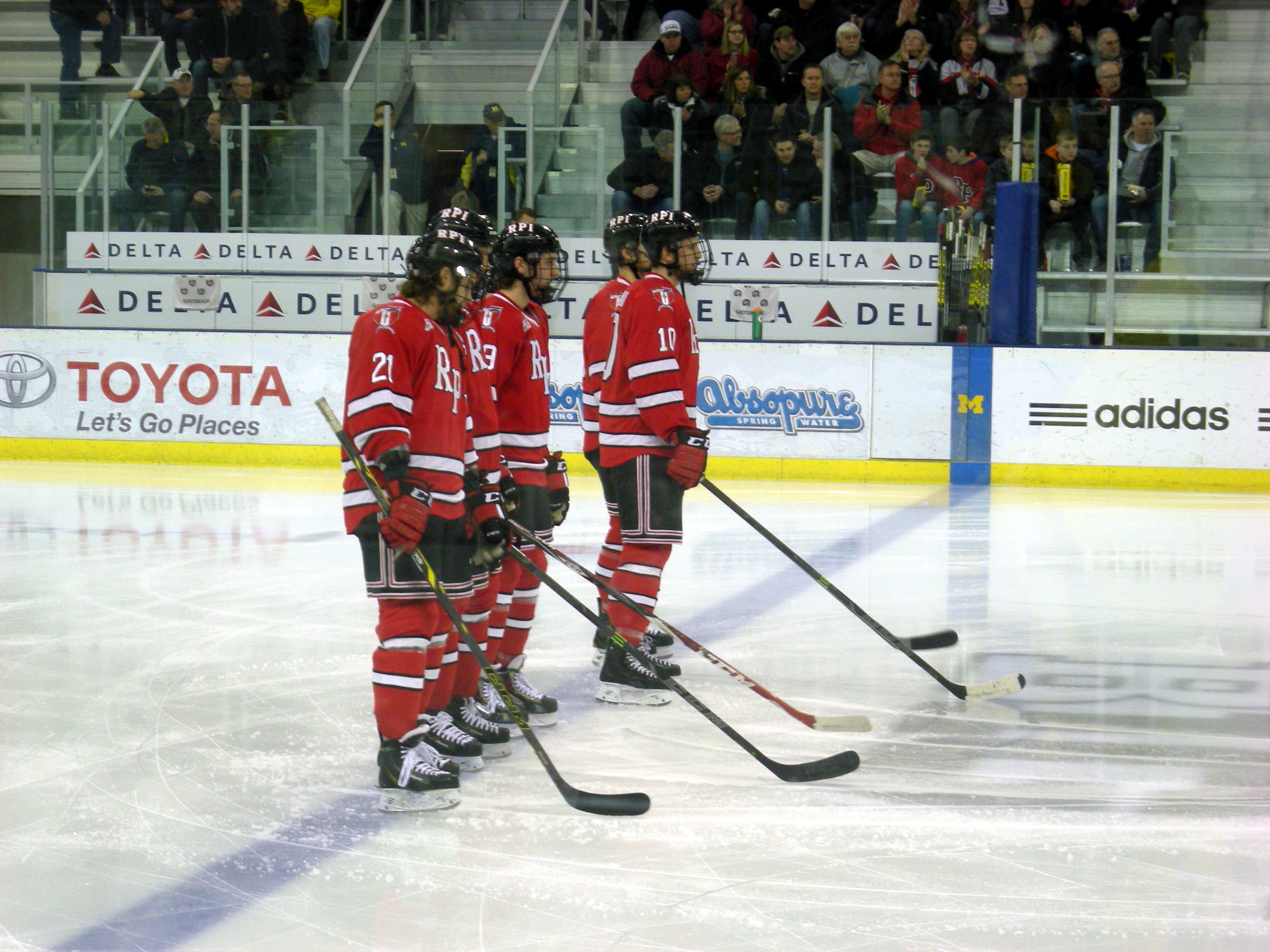 The RPI starting lineup before the RPI Engineers vs. Michigan Wolverines men's ice hockey game at Yost Ice Arena in Ann Arbor, Michigan (United States). Michigan won 3–2.